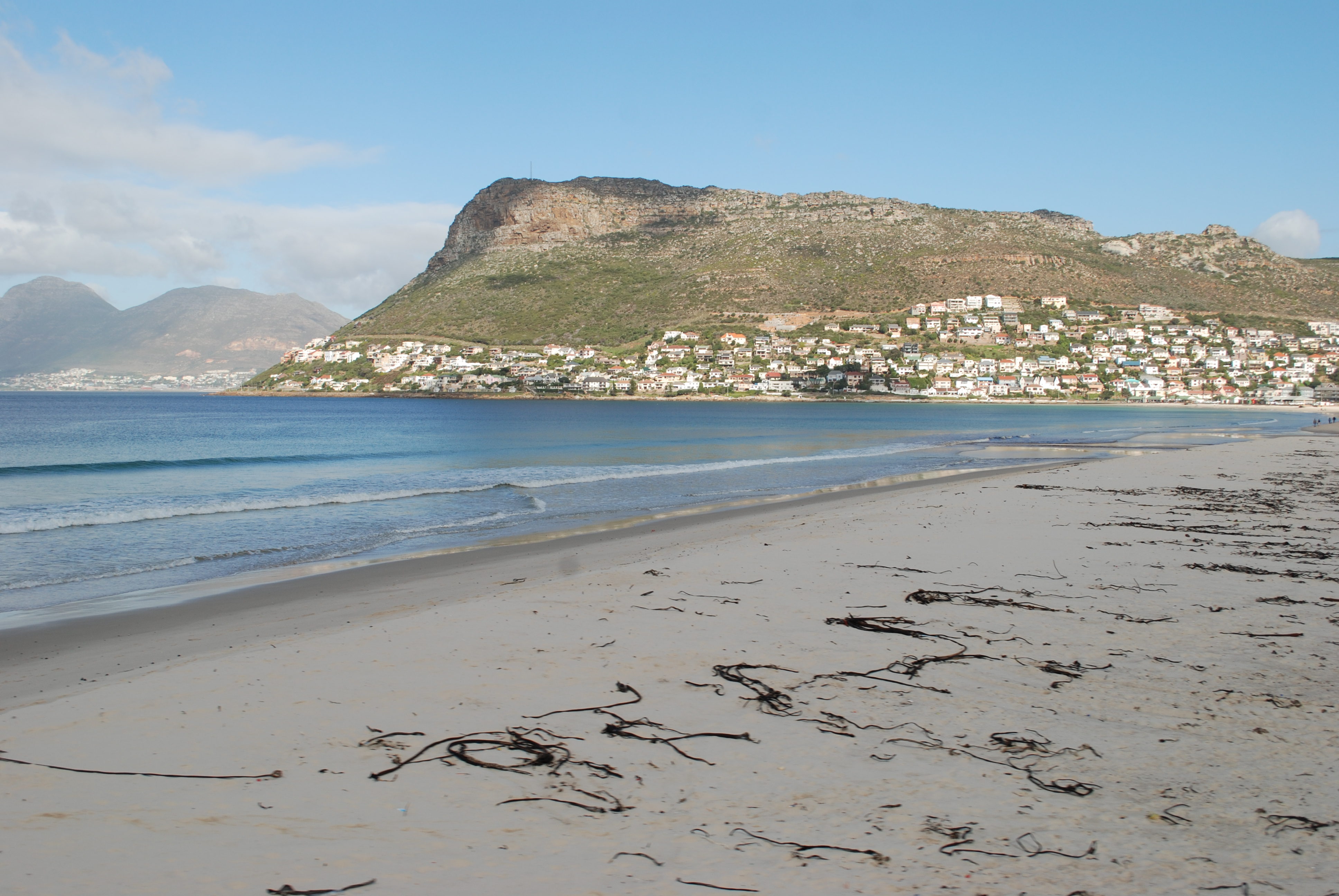 Train ride from Cape Town to Simons Town